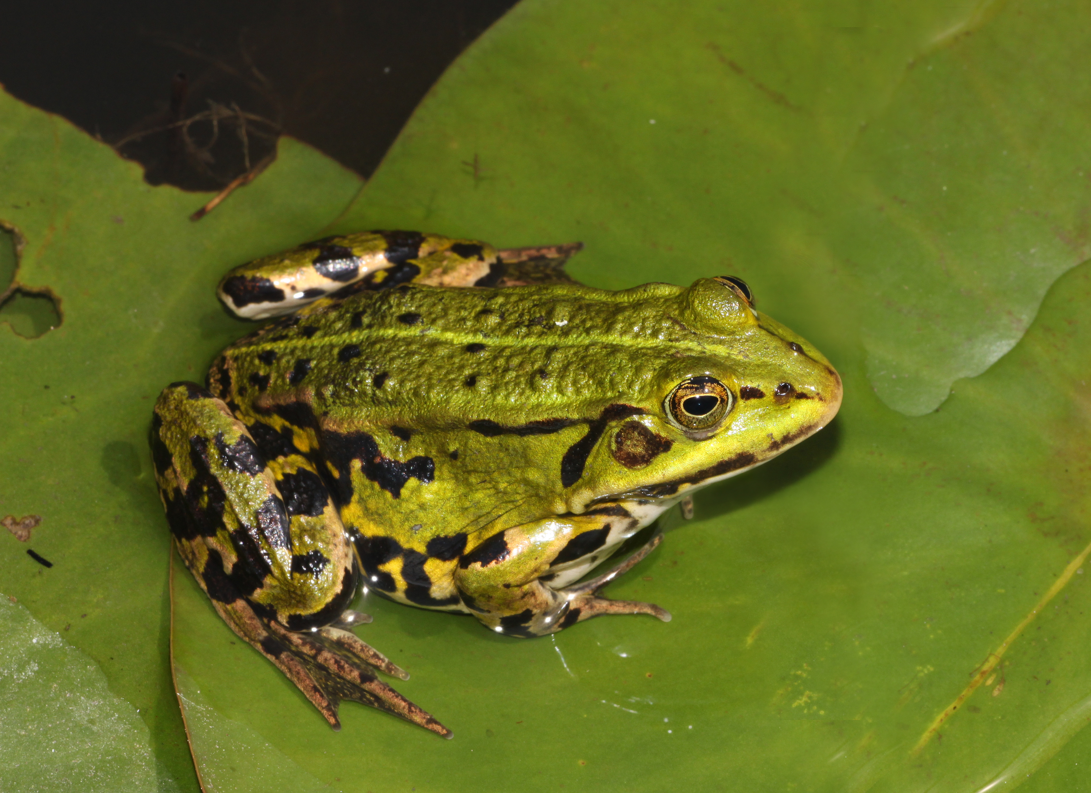 Edible Frog, Pelophylax esculentus (scientific notation: Pelophylax "esculentus") or Rana "esculenta", Family: Ranidae, Location: Germany, Beiningen